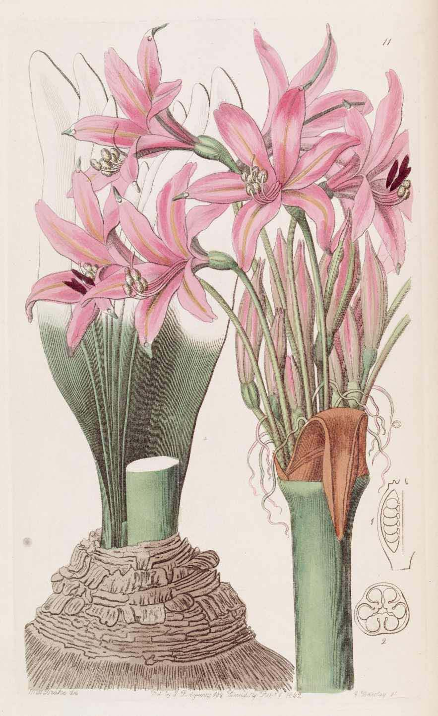 Brunsvigia grandiflora